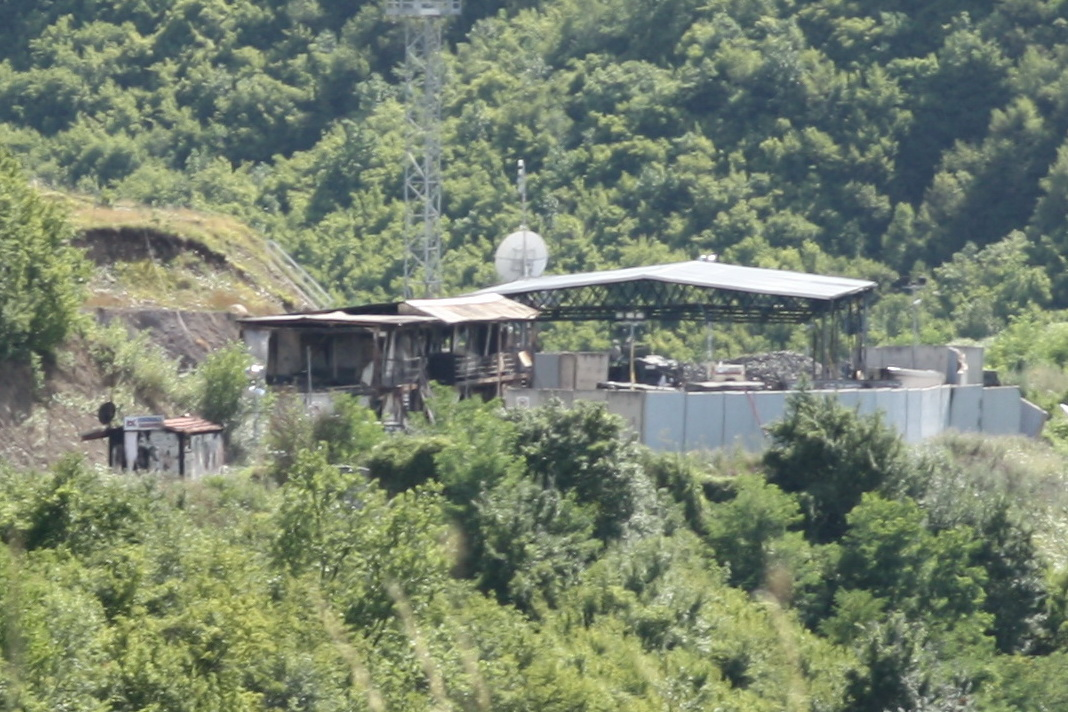 Jarinje check-point on the administrative border of Central Serbia and Kosovo burnt out by manifestants.